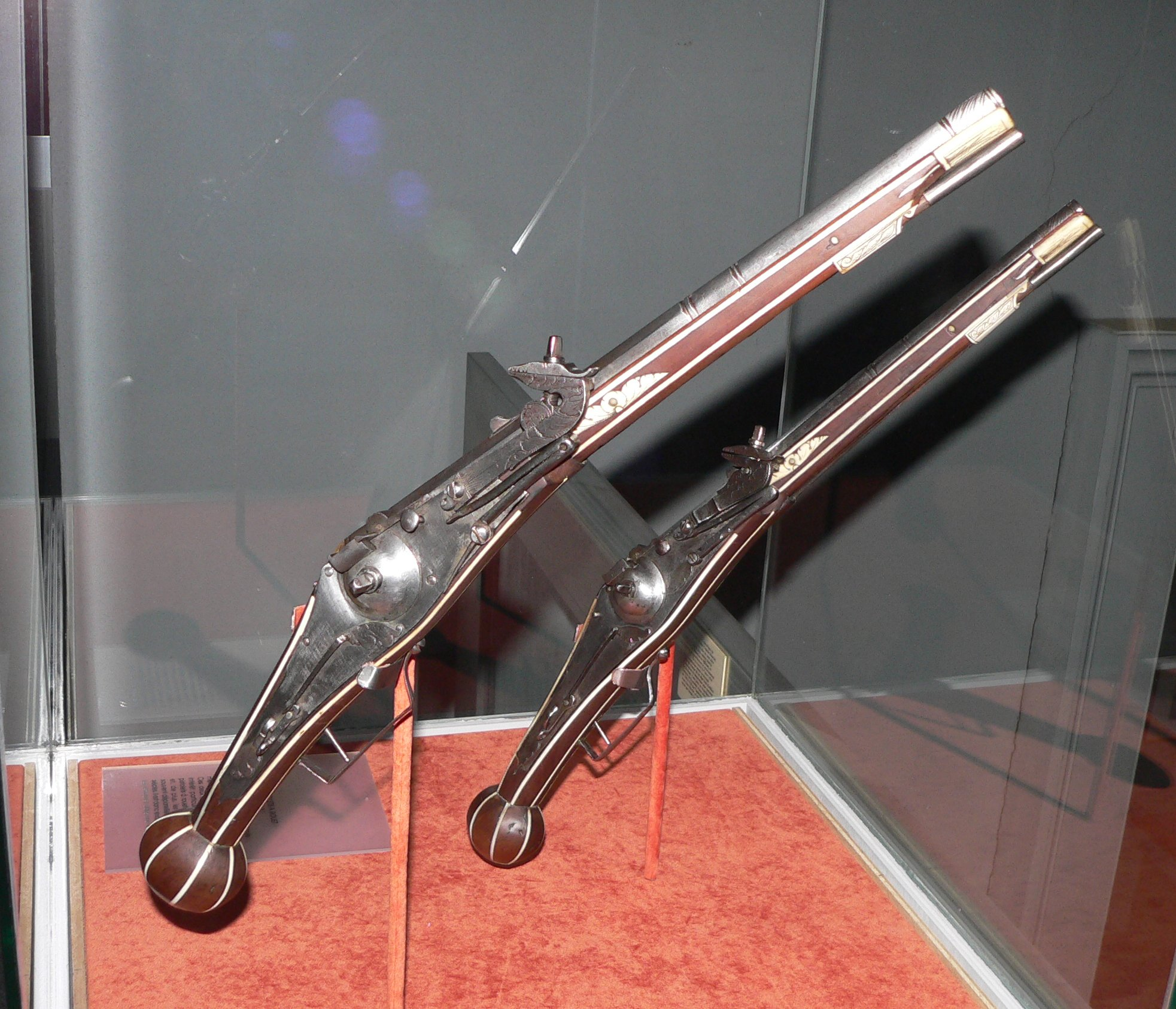 Pistols, musee d'Art et d'Histoire de Neuchatel